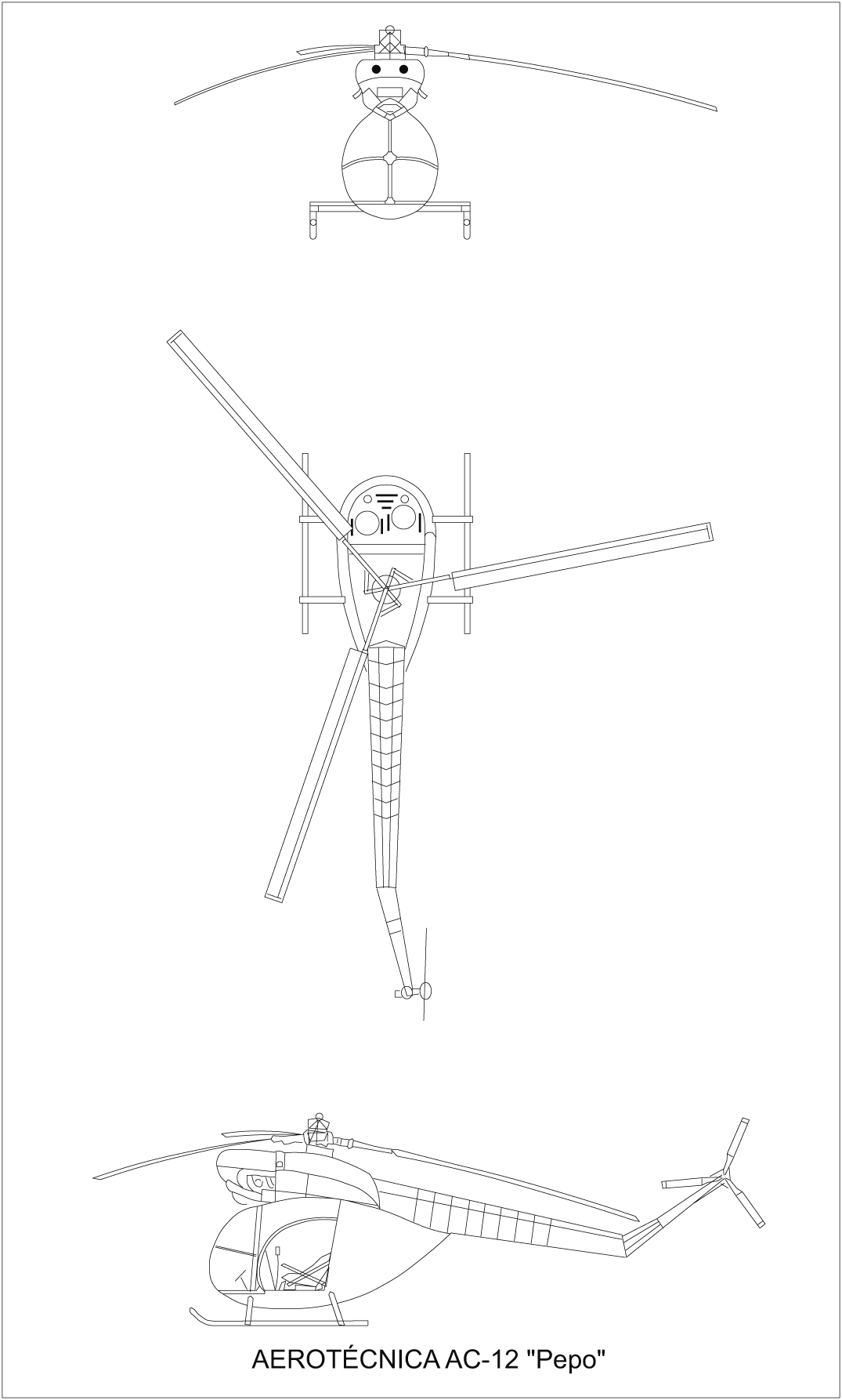 I am the author of this picture, and I'd desire everybody could see it freely in Wikipedia. Dabrio 01:55, 9 August 2007 (UTC)